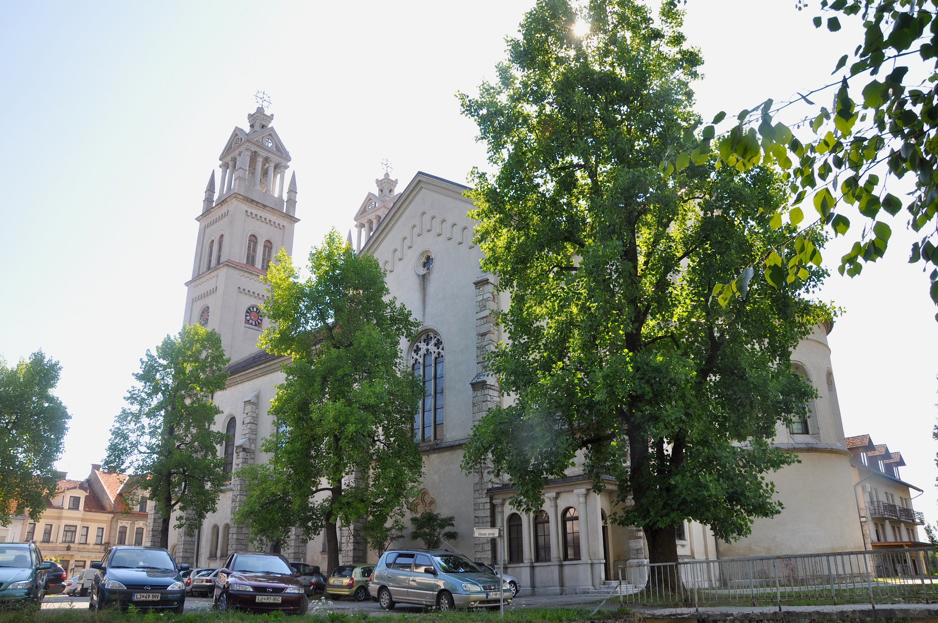 Ribnica church, Slovenia